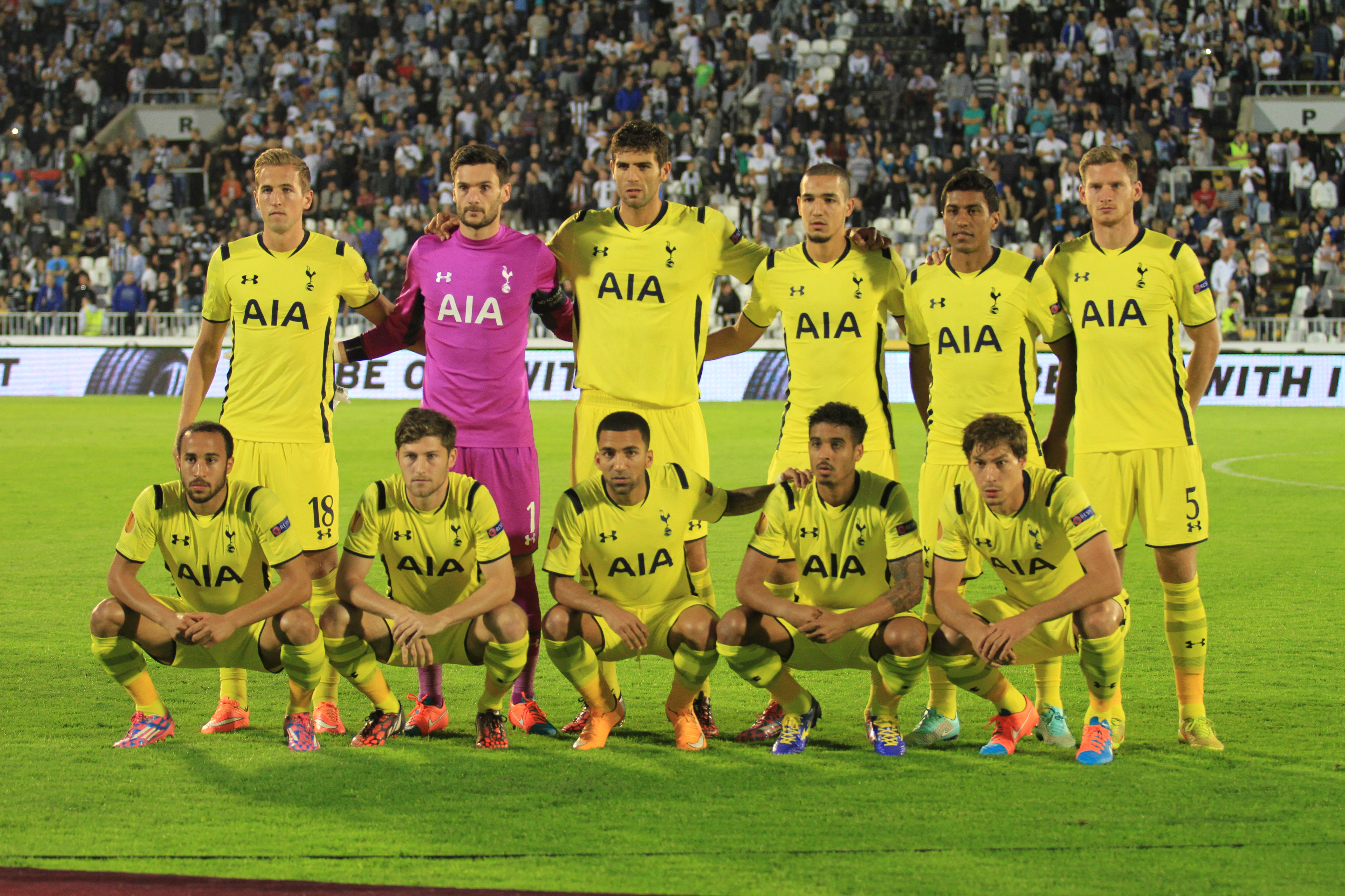 Tottenham Hotspur - English football club from North London, nicknamed Spurs. This picture was taken before Partizan - Tottenham Europa League 2014/2015.